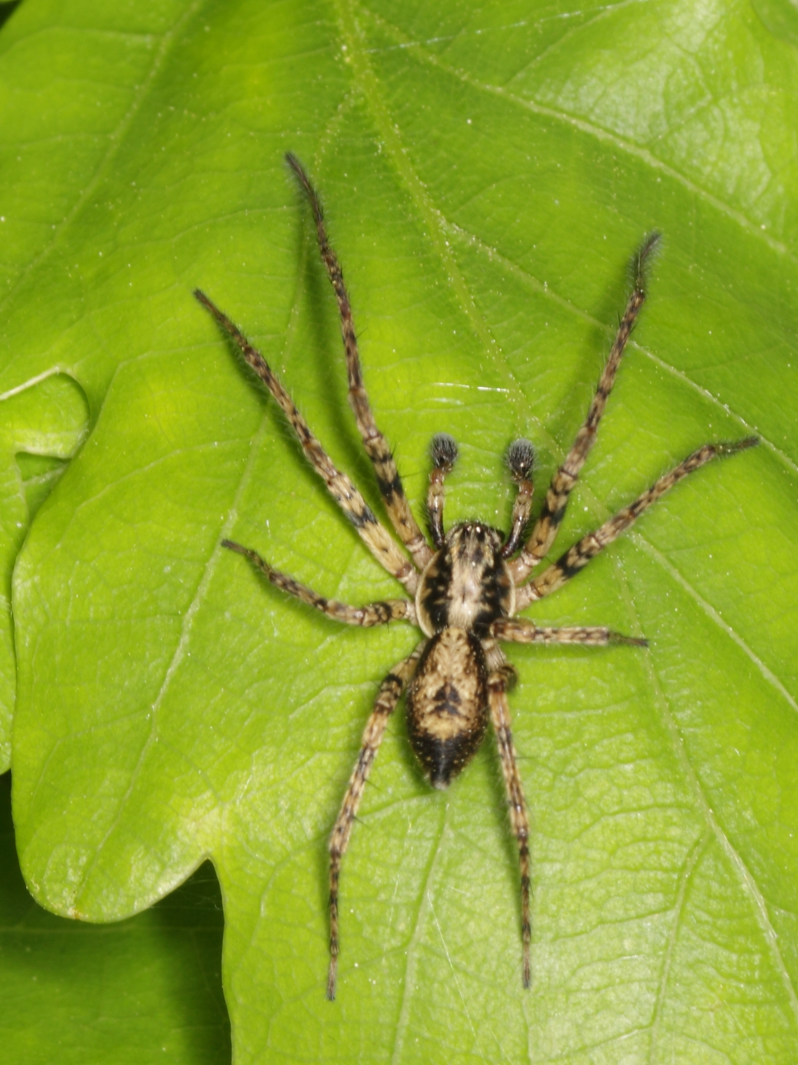 Phylum: Arthropoda LATREILLE, 1829 (arthropods, Gliederfüßer) Subphylum: Chelicerata Class: Arachnida CUVIER, 1812 (arachnids, Spinnentiere) Subclass: Micrura Infraclass: Megoperculata Order: Araneae CLERCK, 1757 (spiders) Suborder: Araneomorphae (Webspinnen) Superfamily: Dictynoidea (sac spiders, Sackspinnen) Family: Anyphaenidae BERTKAU, 1878 Subfamily: Anyphaeninae BERTKAU, 1878 Genus: Anyphaena SUNDEVALL, 1833 Anyphaena accentuata WALCKENAER, 1802, ♂ juvenil (Vierfleck-Zartspinne) [det. „Gerdt Gingko“, 2013, based on this photo] interesting info (German): Germany, Brandenburg, vic. Königs-Wusterhausen: Senzig - Forst Dubrow, 15.05.2013 IMG_3593